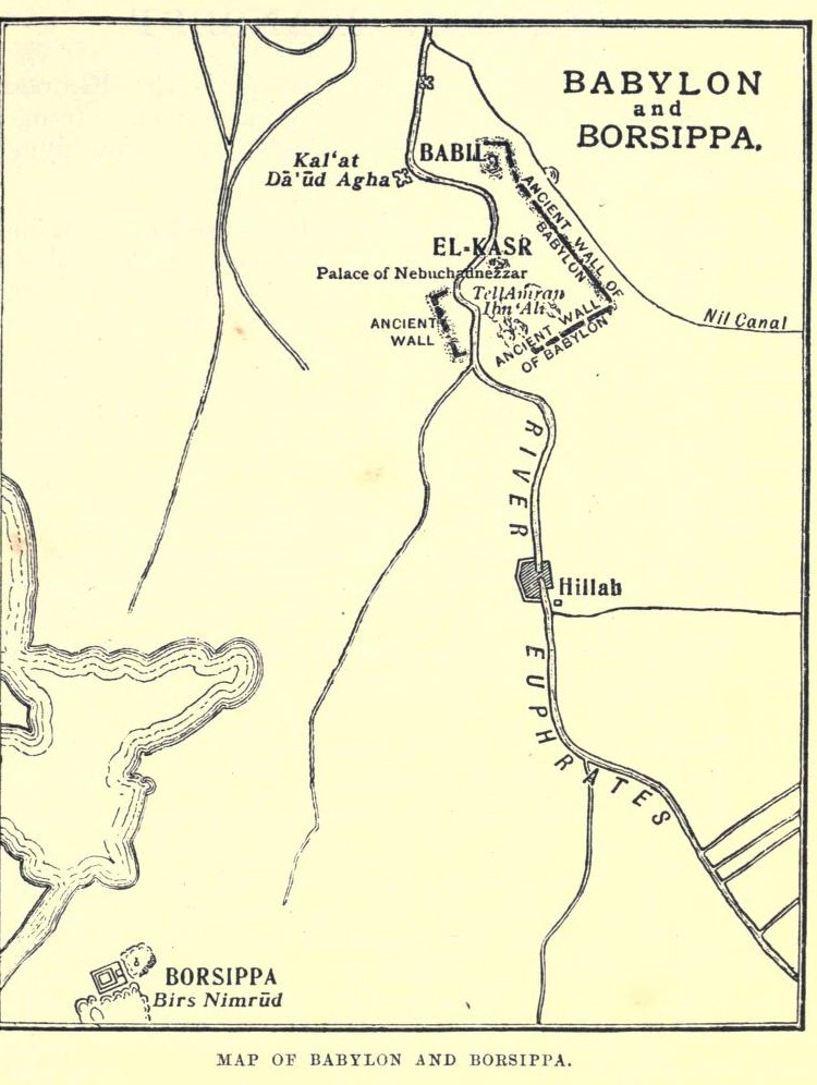 Map of Babylon and Borsippa